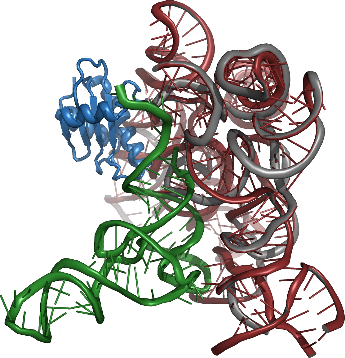 Structure of RNase P generated using PyMol taken from PDB ID: 2A64 Kazantsev, A.V., Krivenko, A.A., Harrington, D.J., Holbrook, S.R., Adams, P.D., Pace, N.R. Crystal structure of a bacterial ribonuclease P RNA. PNAS v102 pp.13392-13397, 2005